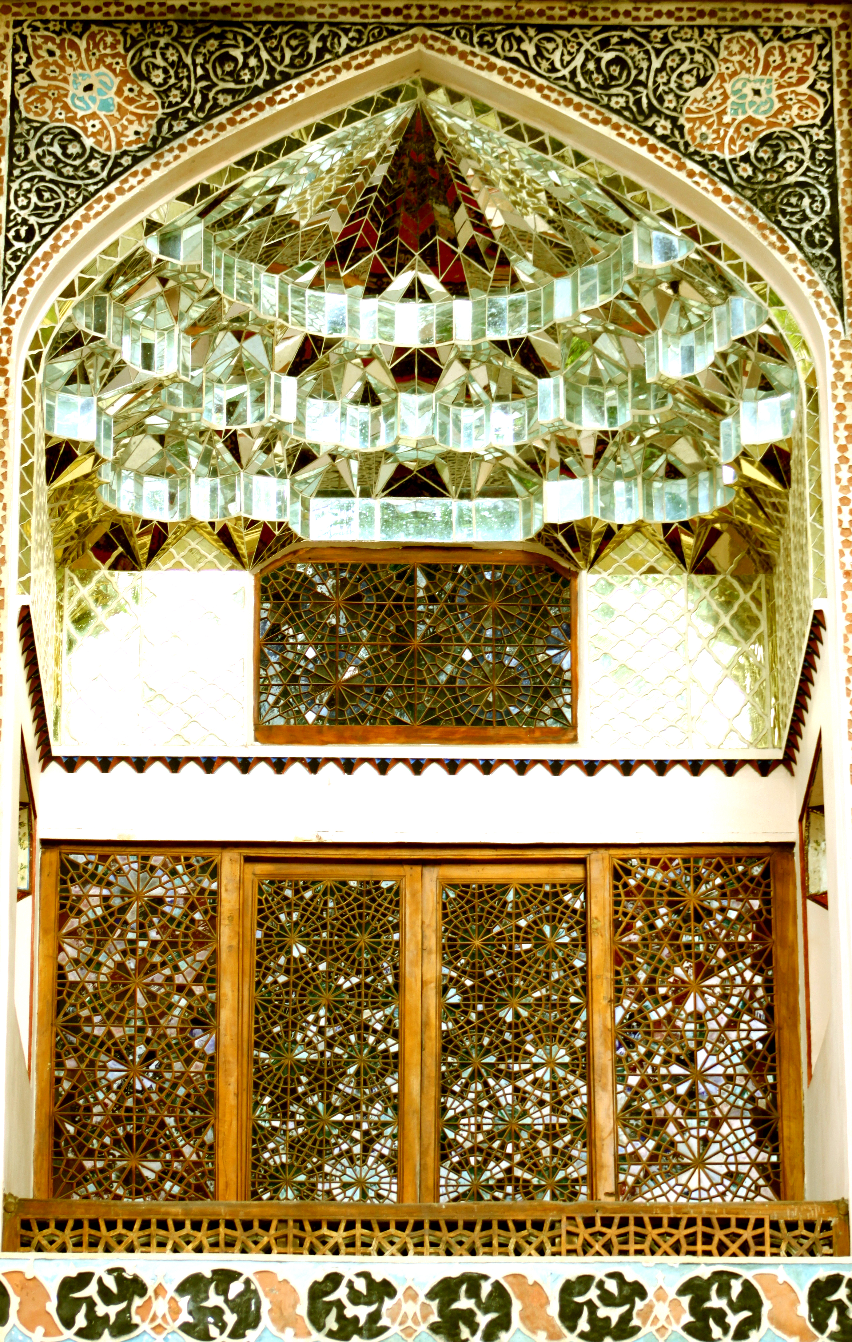 Main façade detail of Khan's Palace of Shaki